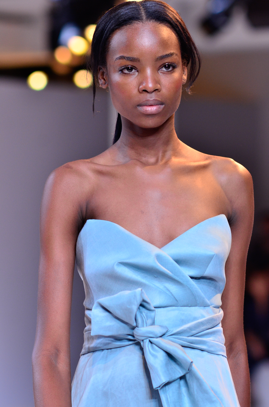 Maria Borges (born 1992, Luanda) is an angolan fashion model.